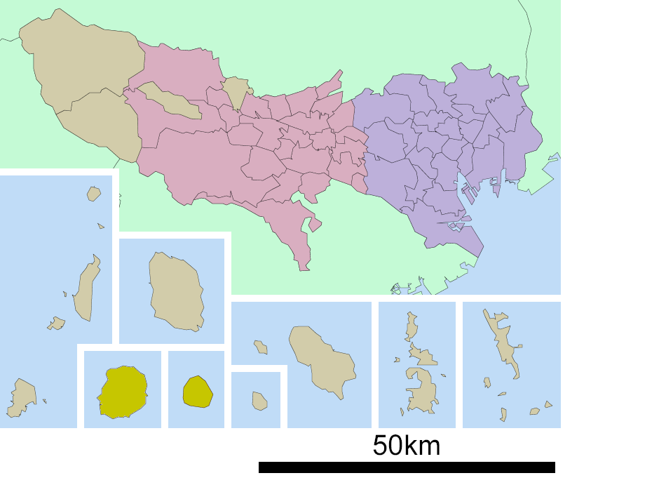 Location map of Miyake Subprefecture in Tokyo Prefecture.